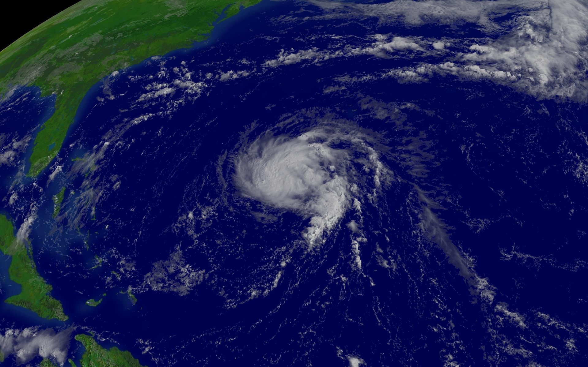 Irene was located south of Bermuda and was moving northwest near 15 MPH. Winds were sustained at 60 MPH, with higher gusts.